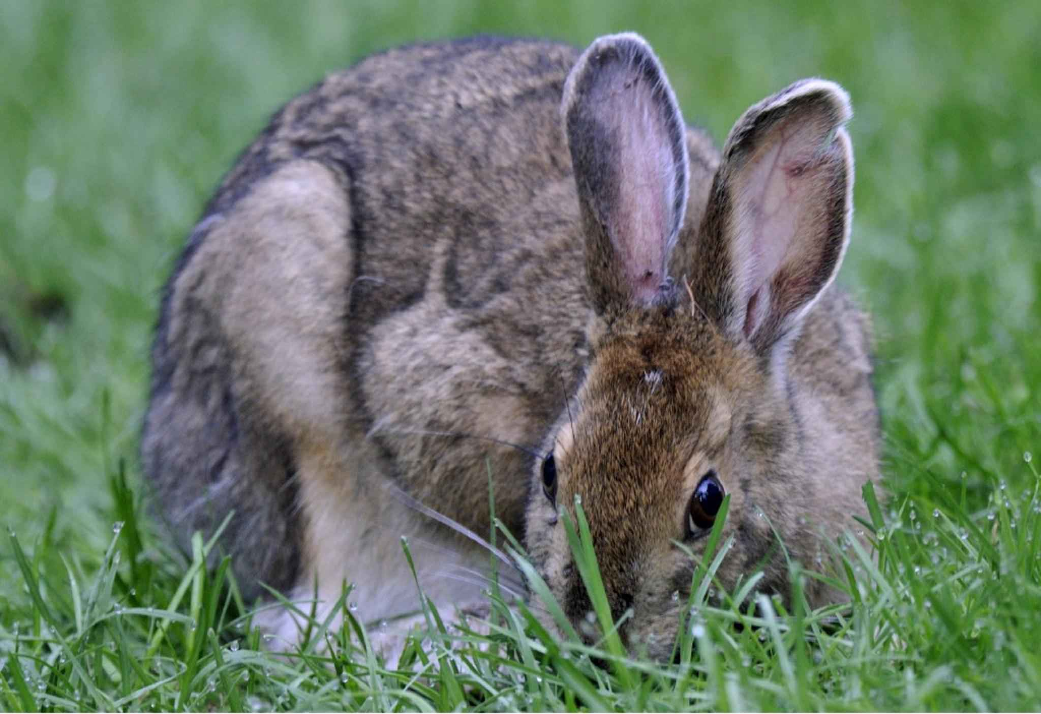 Image title: Snowshoe hare eating grass Image from Public domain images website